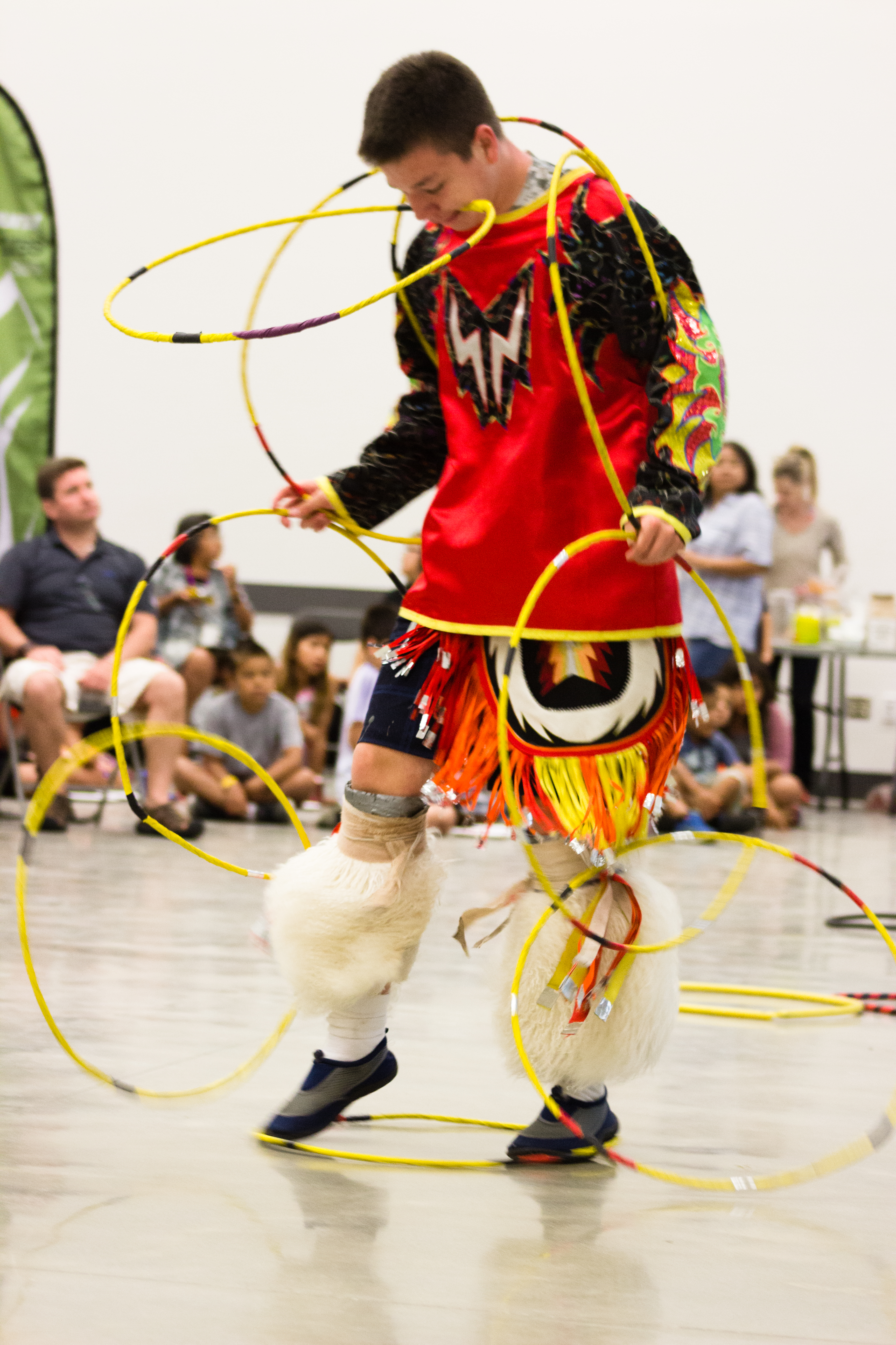 On Wednesday, June 17, Aboriginal Access Services hosted a celebration for UFV students, faculty, and staff, to mark National Aboriginal Day 2015. The event featured dancing, drumming, and singing performances, as well as demos, exhibits, and games organized by members of local Stó:lō and Métis communities.